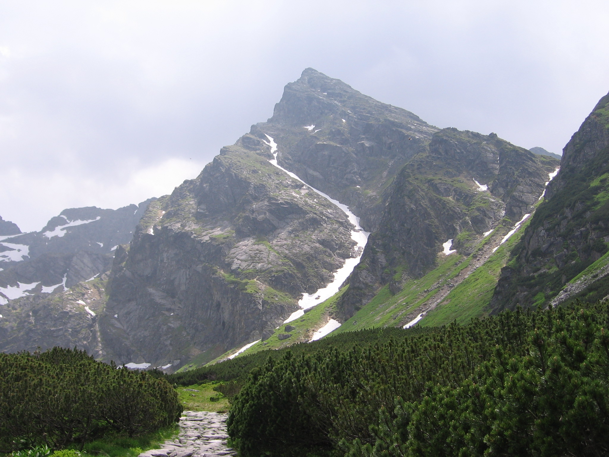 Koscielec, view from the trail. Tatra Mountains